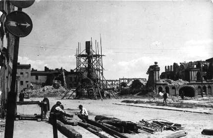 Prudnik in 1946.